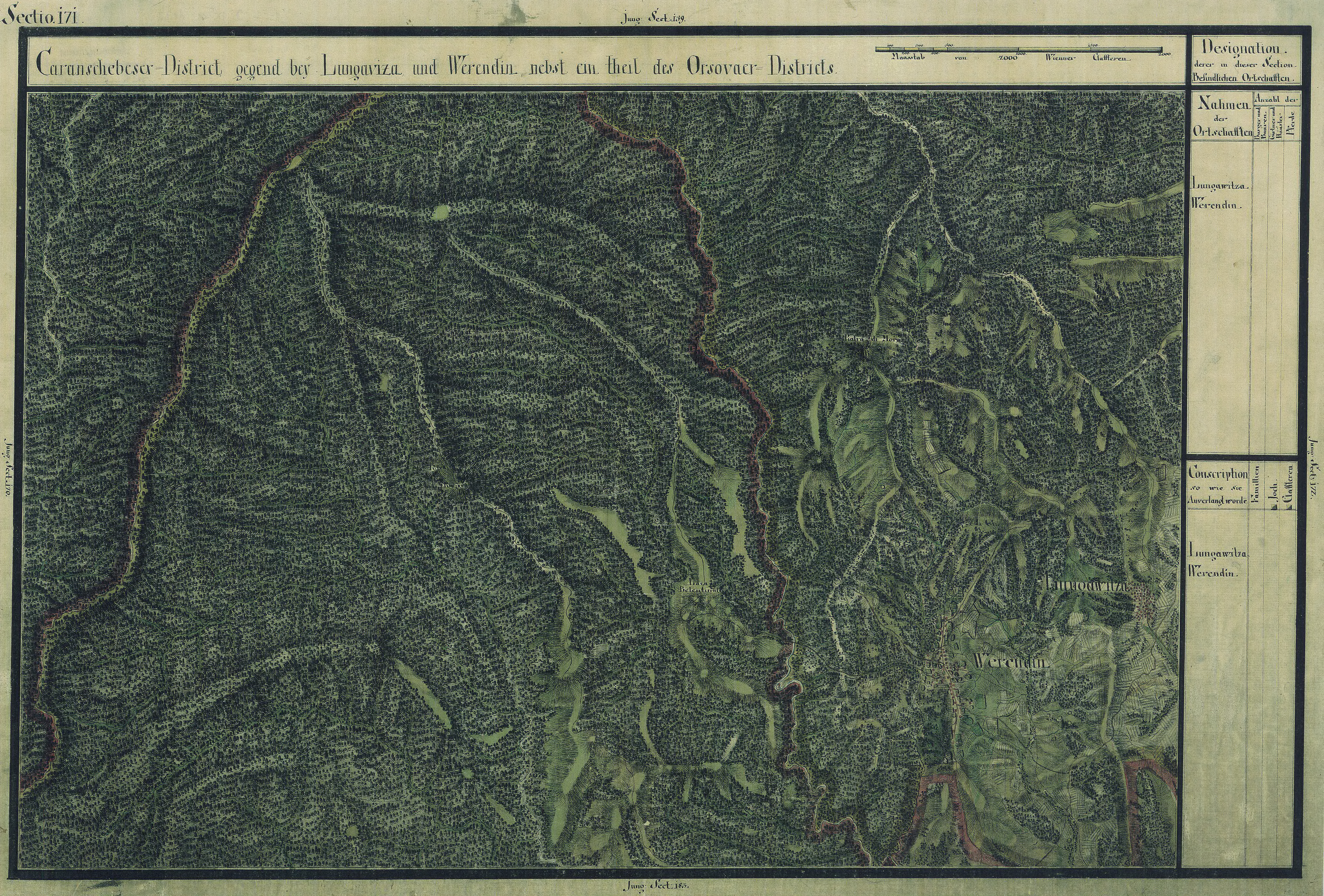 The Banat region in the cadastral maps: Josephinische Landesaufnahme, 1769-72. Josephinische Landaufnahme pg171